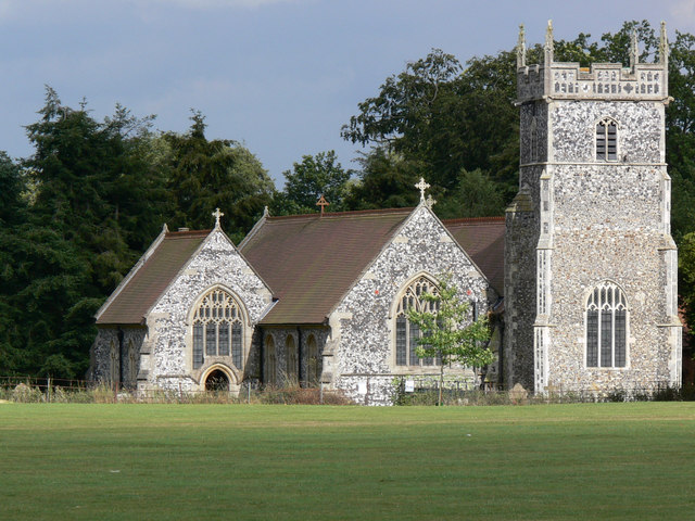 Parish church of St Michael and All Angels, Woolverstone, Suffolk, seen from the northwest